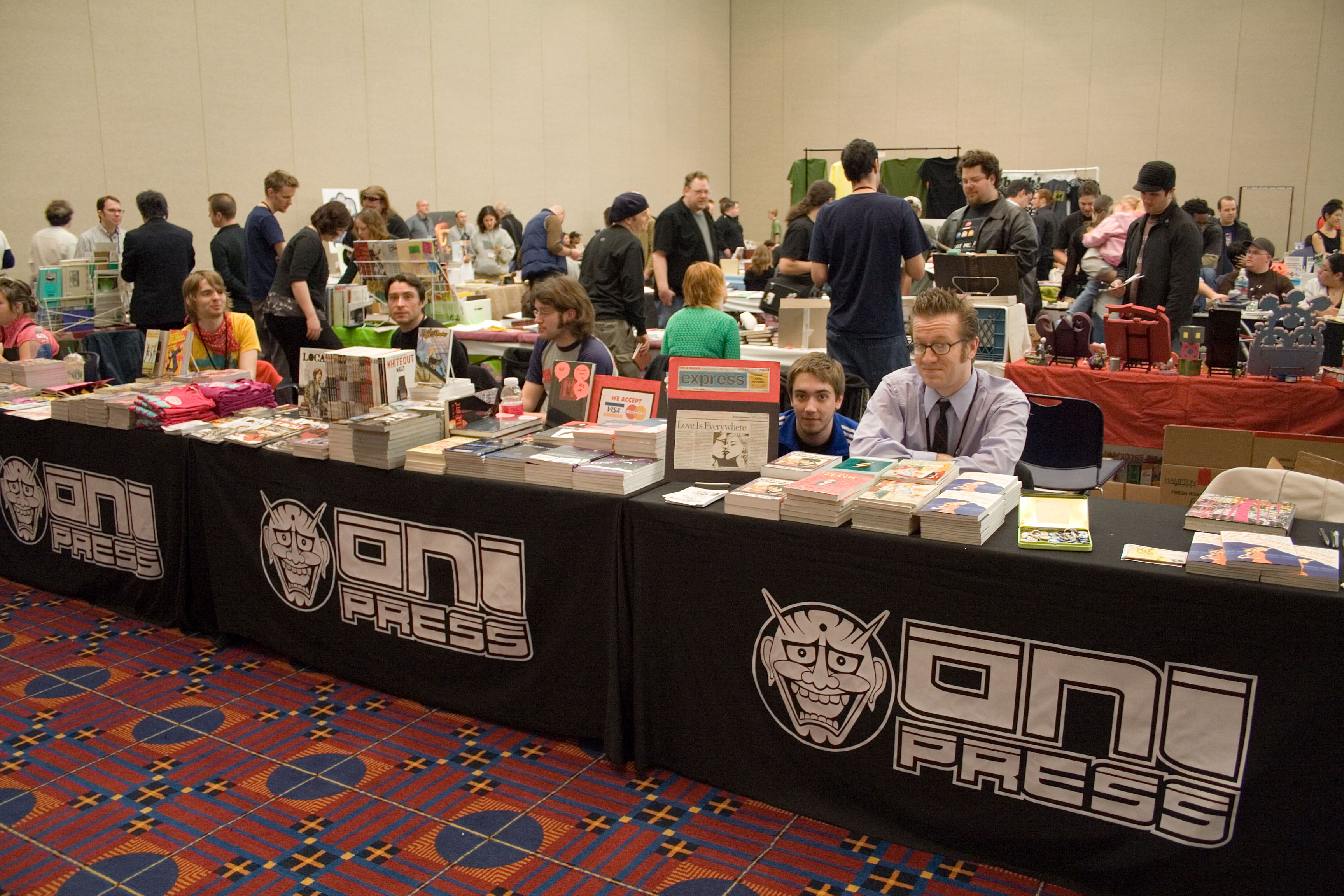 The Oni Press booth at the Stumptown Comics Fest 2006.